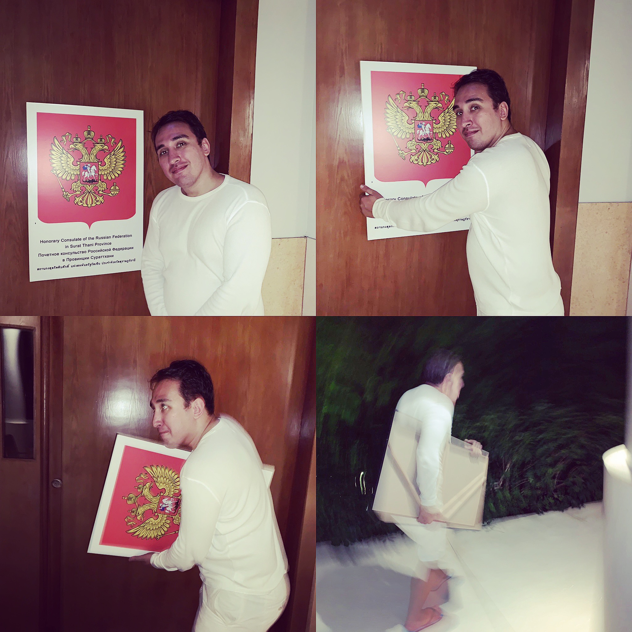 A short explanation of what theft actually is